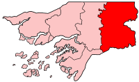 Map of Guinea-Bissau showing Gabú region.